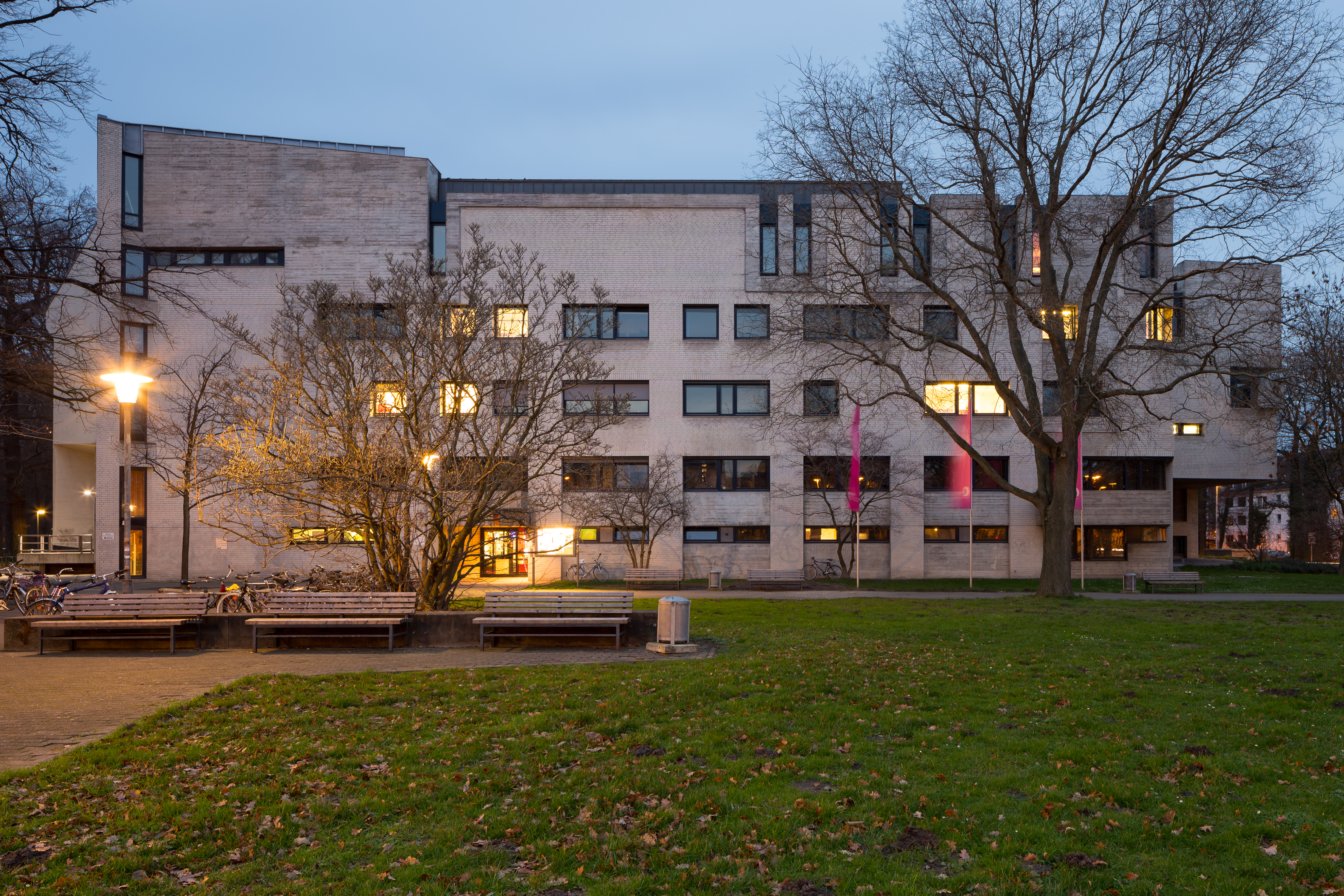 School for music, theater and media Hannover (HMTMH) located Emmichplatz square in Zoo quarter of Hannover, Germany.